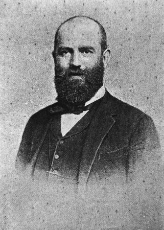 Nikolaos Damalas (1842-1892): Greek theologian and university professor